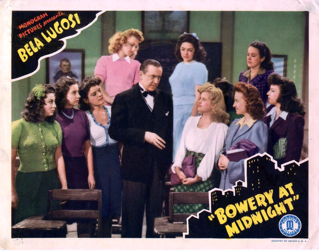 Lobby card from the American film Bowery at Midnight (1942) with Bela Lugosi.